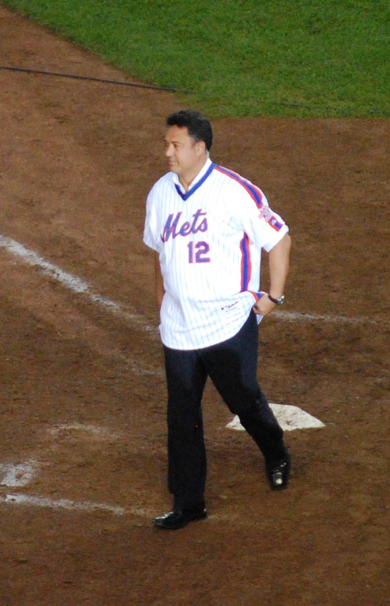 Ron Darling